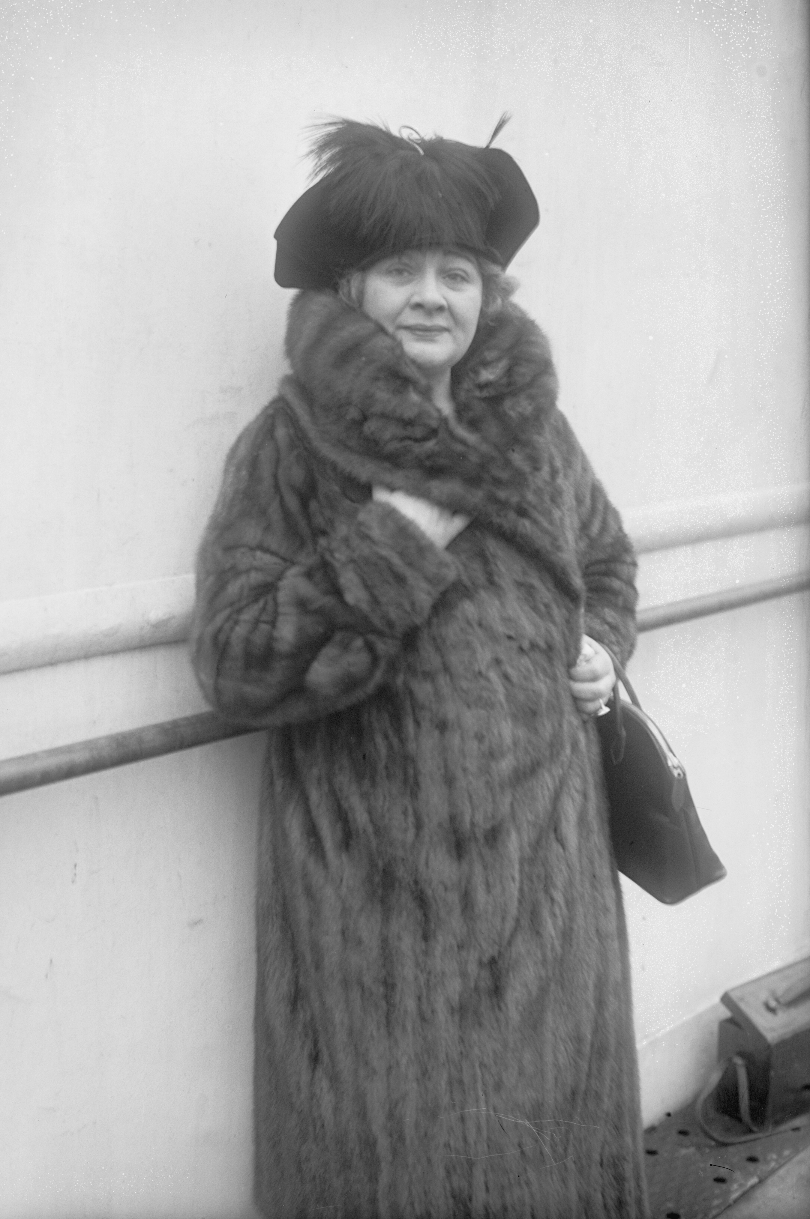 Singer Sophie Tucker. Photoportrait, 3/4 length, standing, wearing hat and fur coat, holding purse.